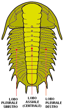 Scheme of the typical subdivision in three lobes of the trilobite body. Text in Italian.